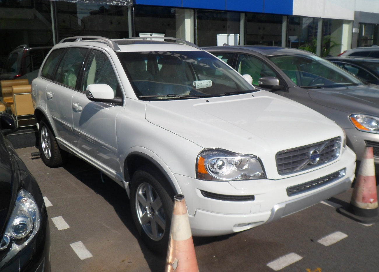 Volvo XC90 C photographed in Shanghai, China.